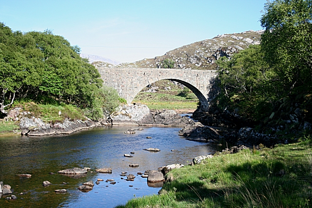 Laxford Bridge Looking upstream to the arched bridge which, so far, has escaped replacement by a modern one.